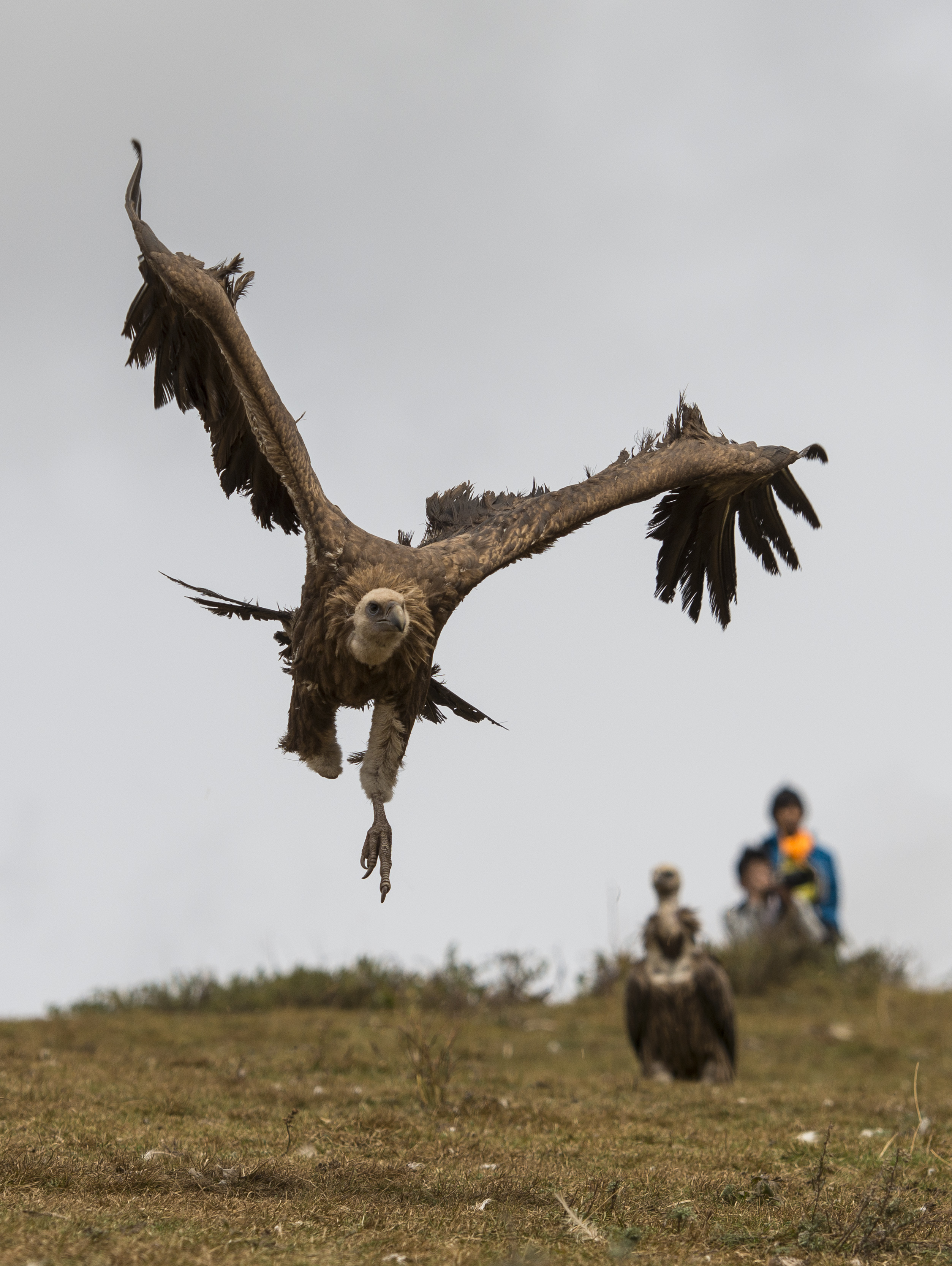 seda sertar tibet china monk buddhist 2013 vulture sky burial